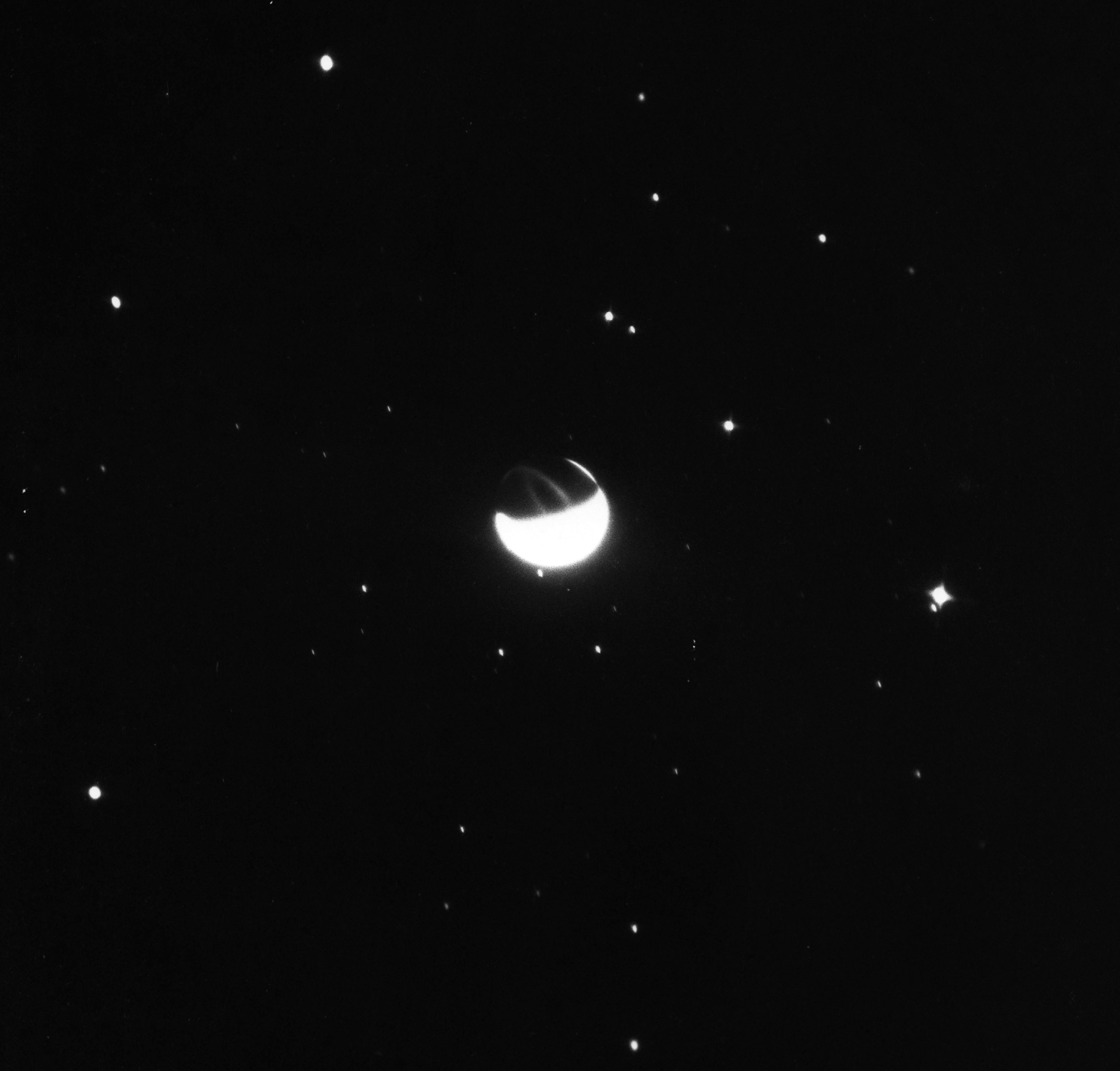 The Earth, photographed in far-ultraviolet light (1304 Angstrom) by Astronaut John W. Young, Apollo 16 commander, with the ultraviolet camera. The auroral belts 13 degrees either side of the magnetic equator can be seen crossing each other on the middle of the right side of the Earth.